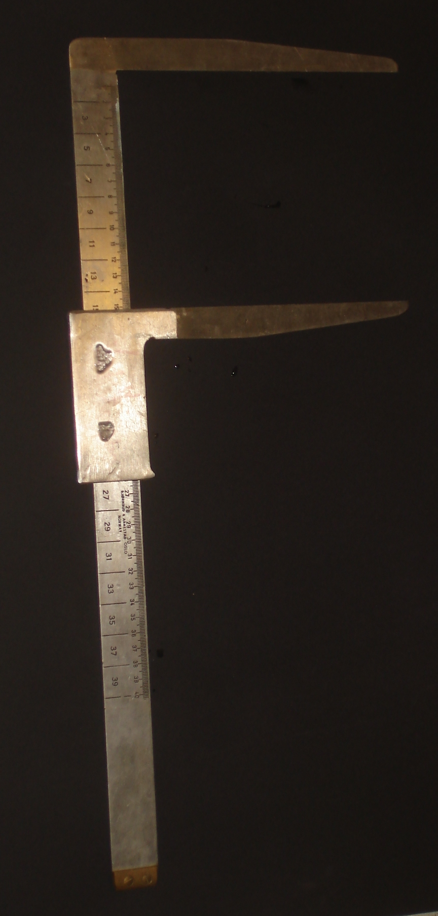 Caliper